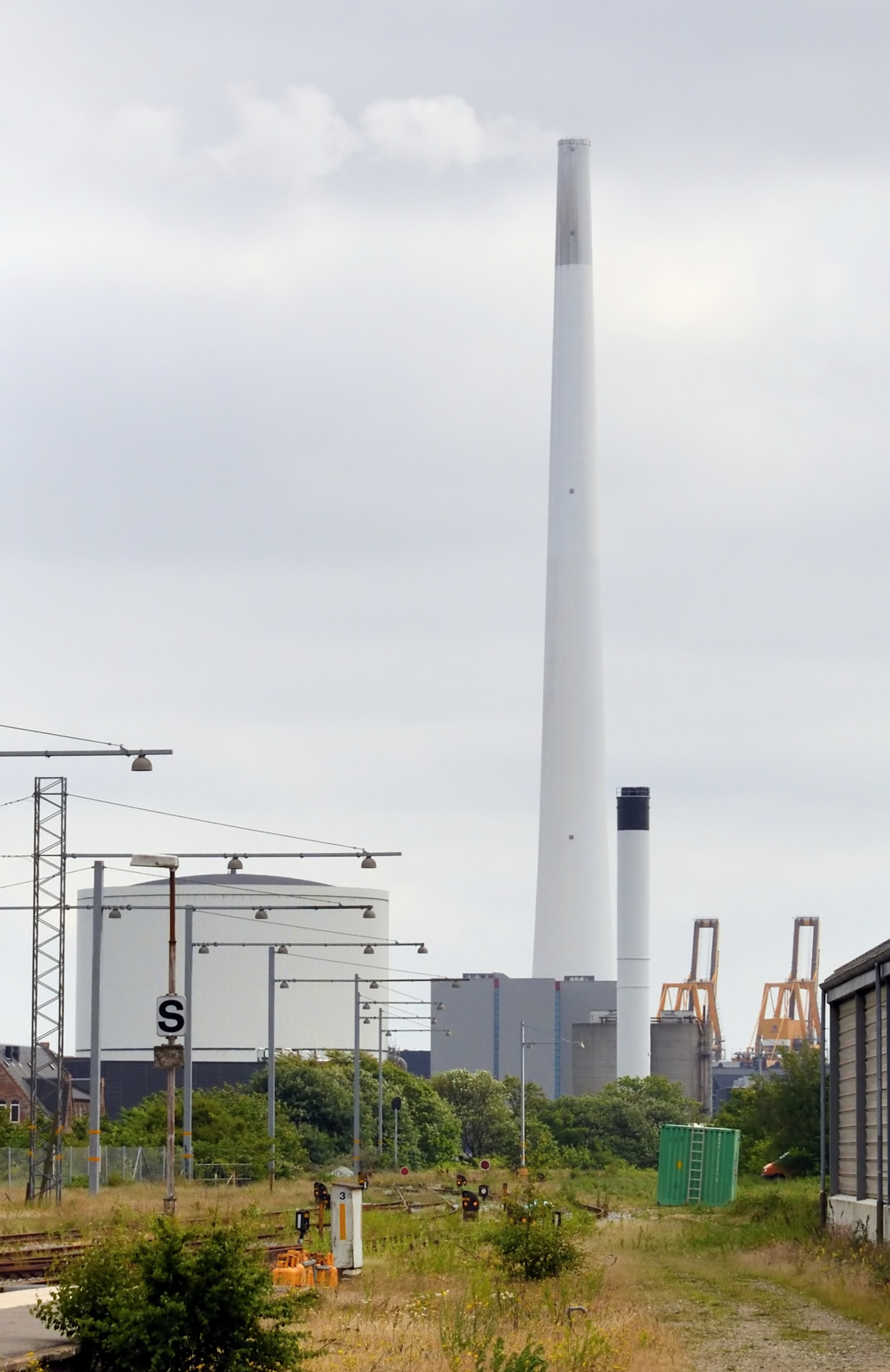 Esbjerg: chimney of Esbjerg Power Plant (250 meters)